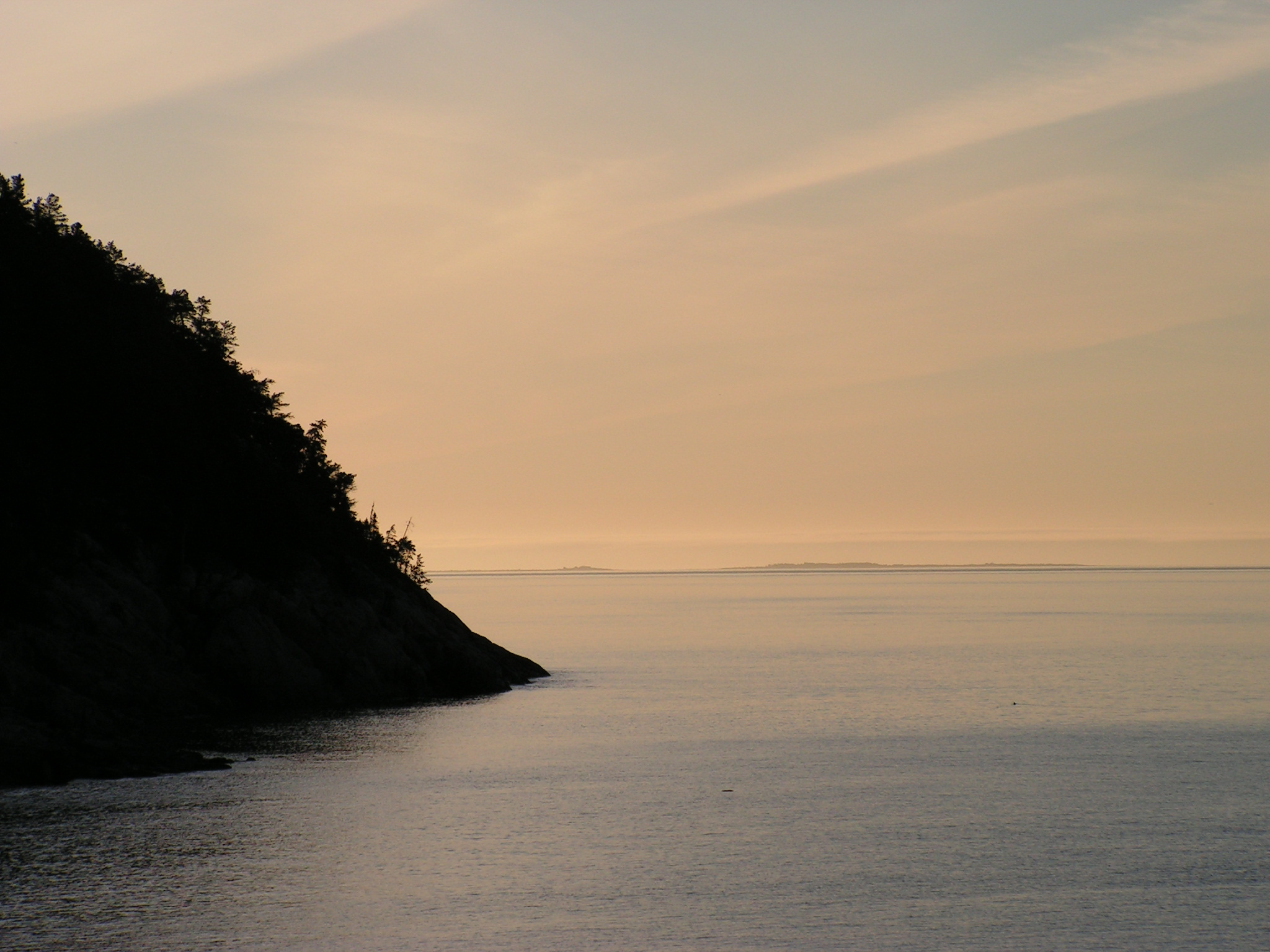 Saint Lawrence estuary, Port-au-Saumon, La Malbaie (Quebec).